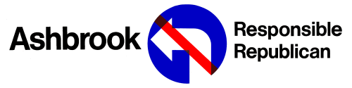 John Ashbrook